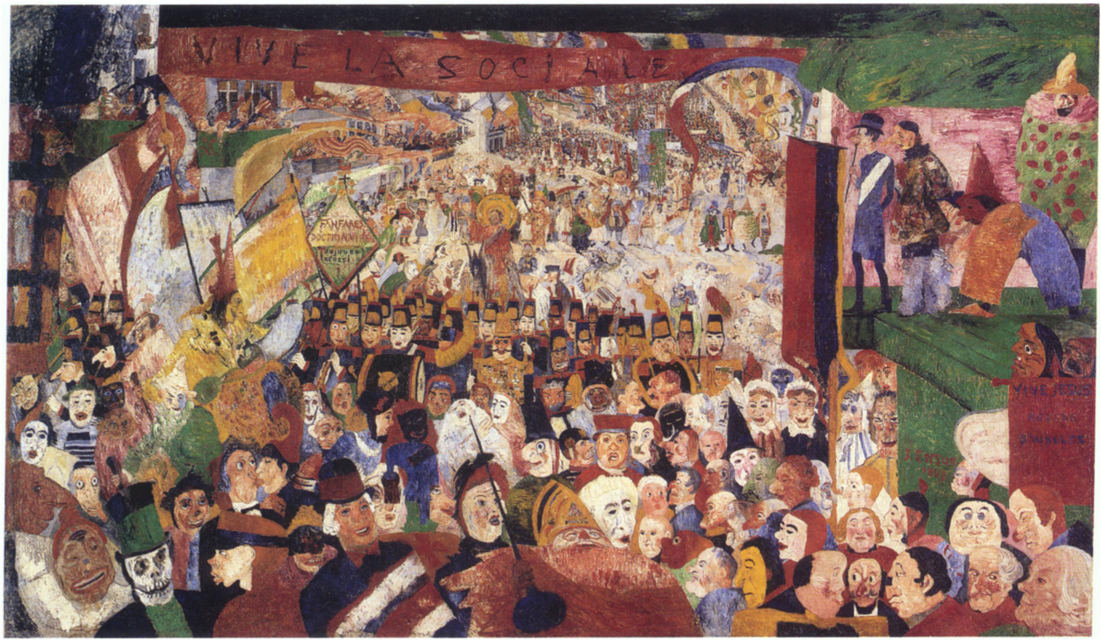 Christ's Entry into Brussels in 1889.